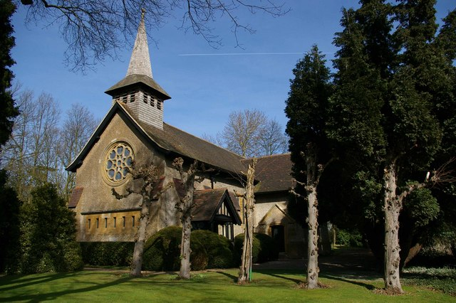 St Mary The Virgin, near to Great Warley, Essex, Great Britain. This is St Mary the Virgin built in 1902 for a history see Link